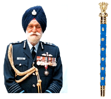 Marshal of IAF Arjan Singh pic